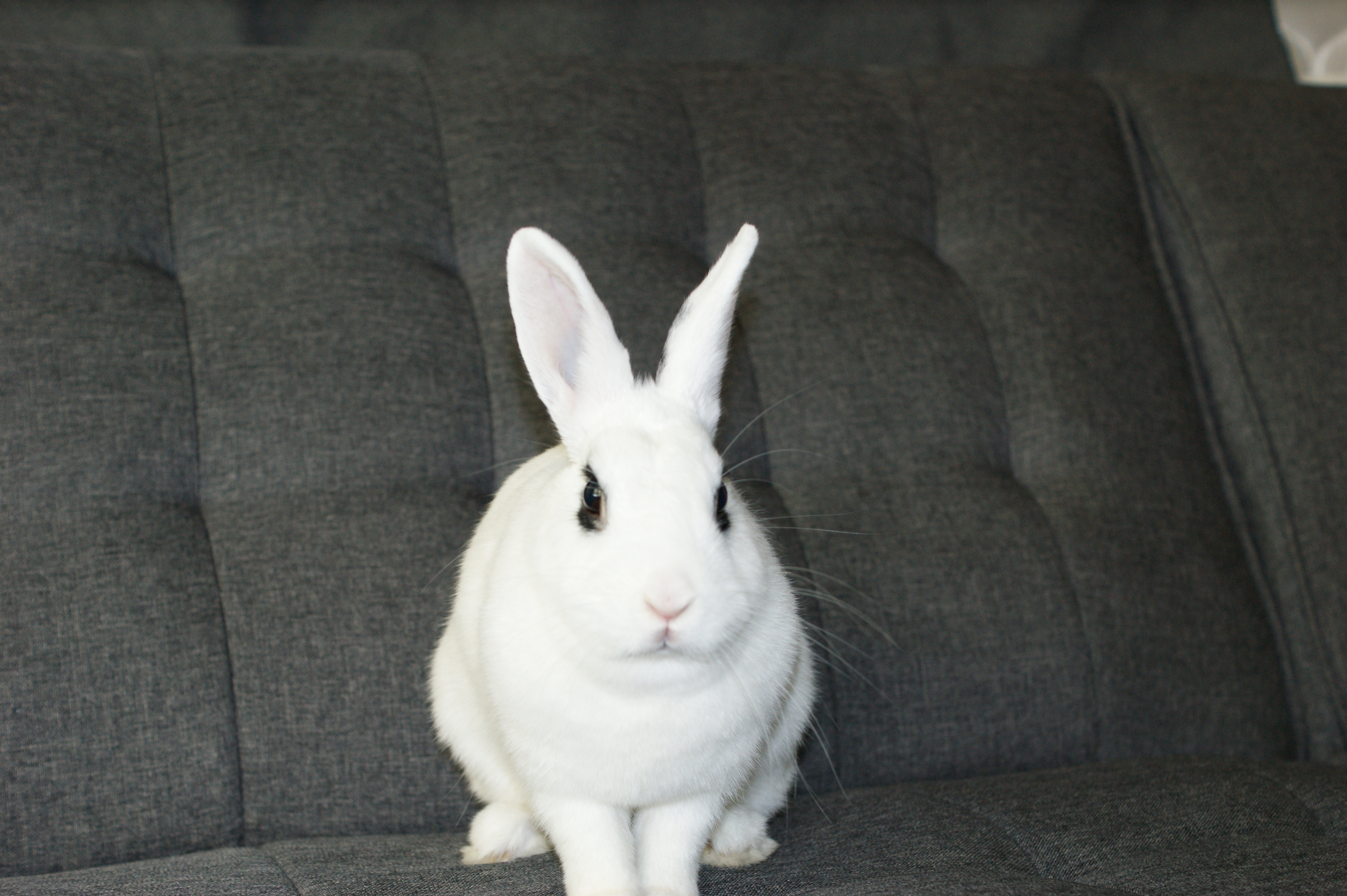 this is my pet rabbit Lily. She is 1.5 years old and would be a nice picture model for rabbit wiki.